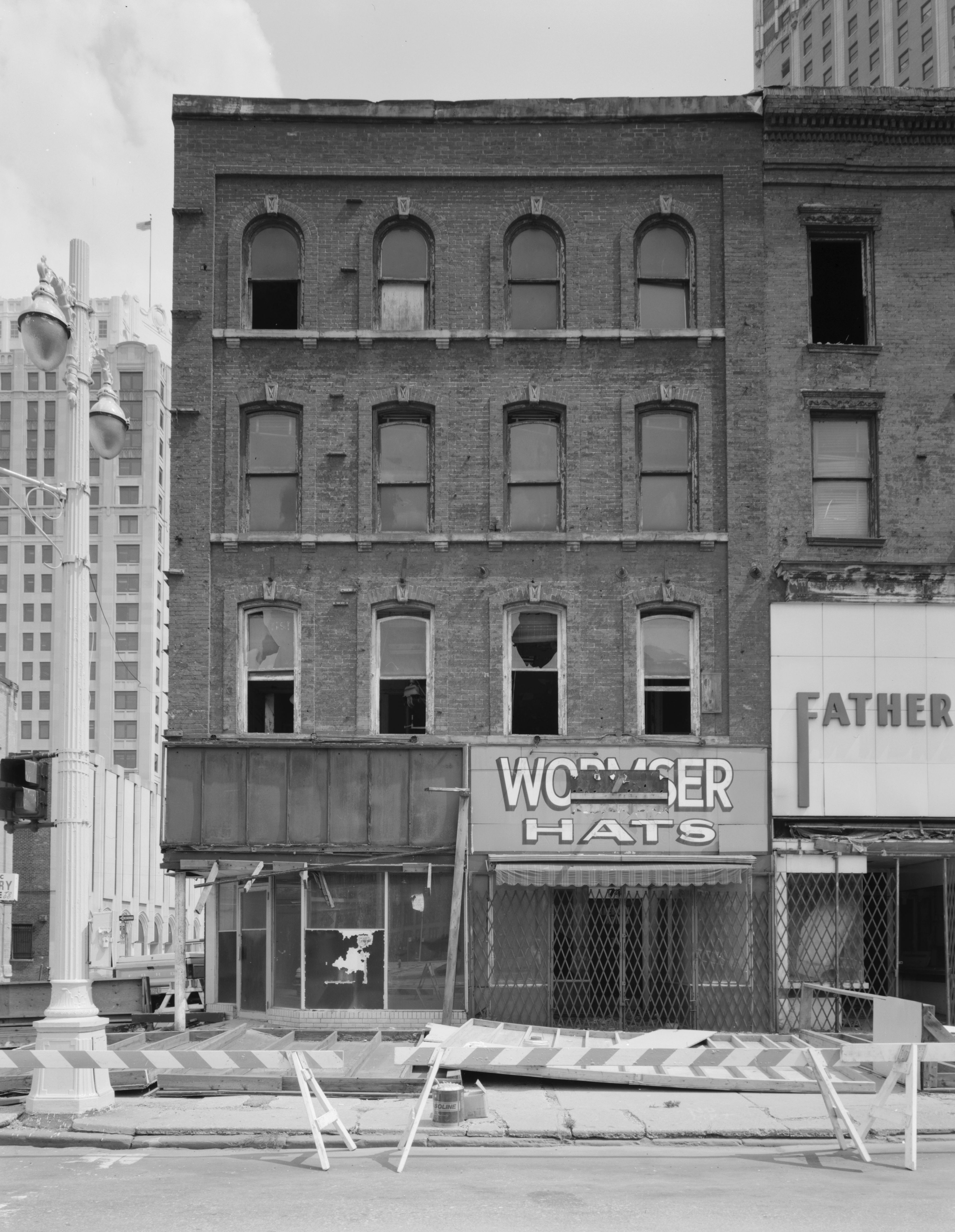 74-78 Monroe Avenue — Detroit, Michigan. Historic American Buildings Survey—HABS image (1989).